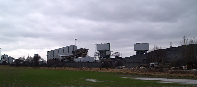 Kellingley Colliery. The colliery lies across the West Yorkshire/North Yorkshire border line inbetween Kellingley and Knottingley. the 26th of January 2008. Camera location SE 530 232 looking North West (about 337 degrees).